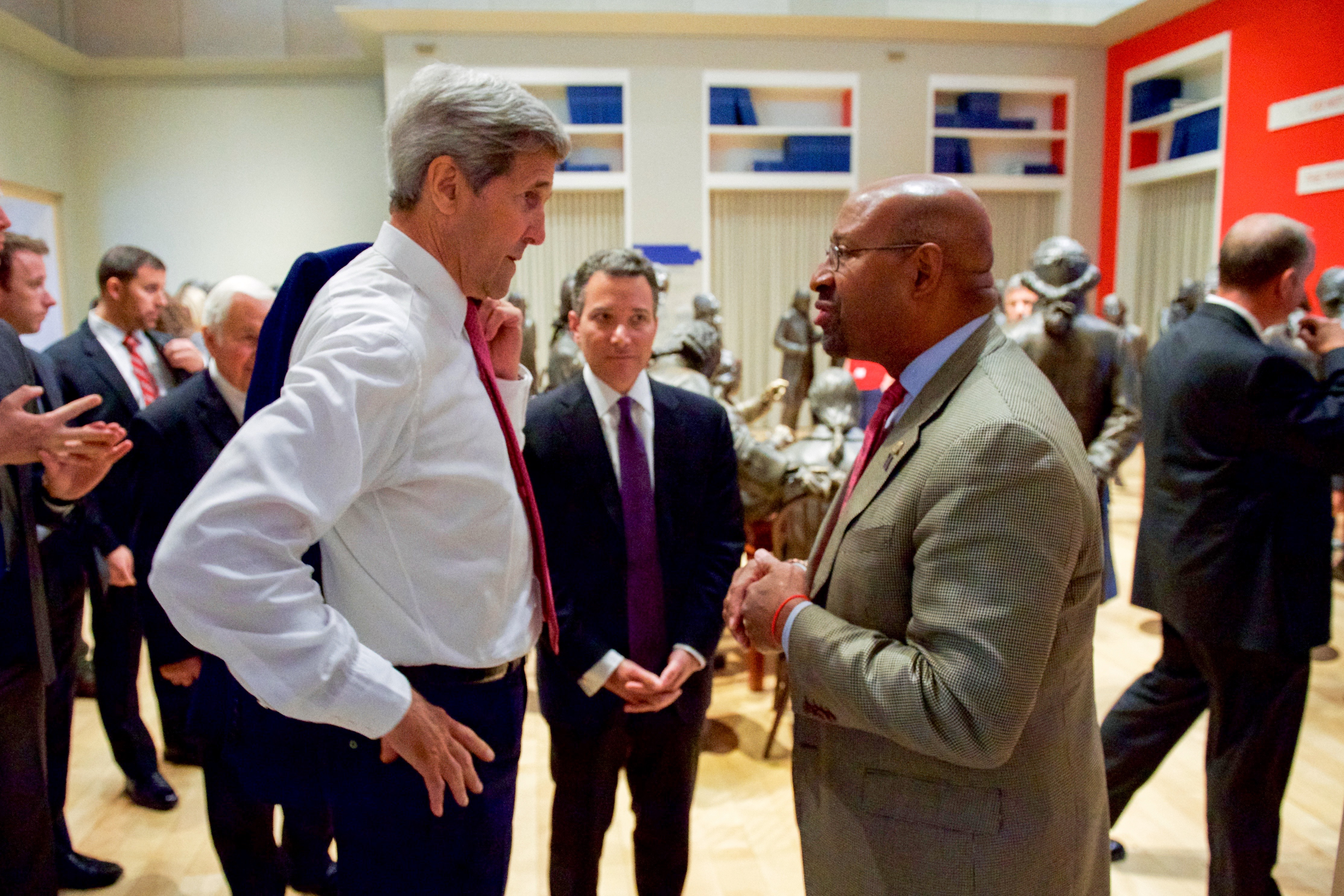 U.S. Secretary of State John Kerry speaks with Philadelphia Mayor Michael Nutter on September 2, 2015, after delivering a speech about the Iranian nuclear deal at the National Constitution Center in Philadelphia, Pennsylvania. [State Department photo/ Public Domain]